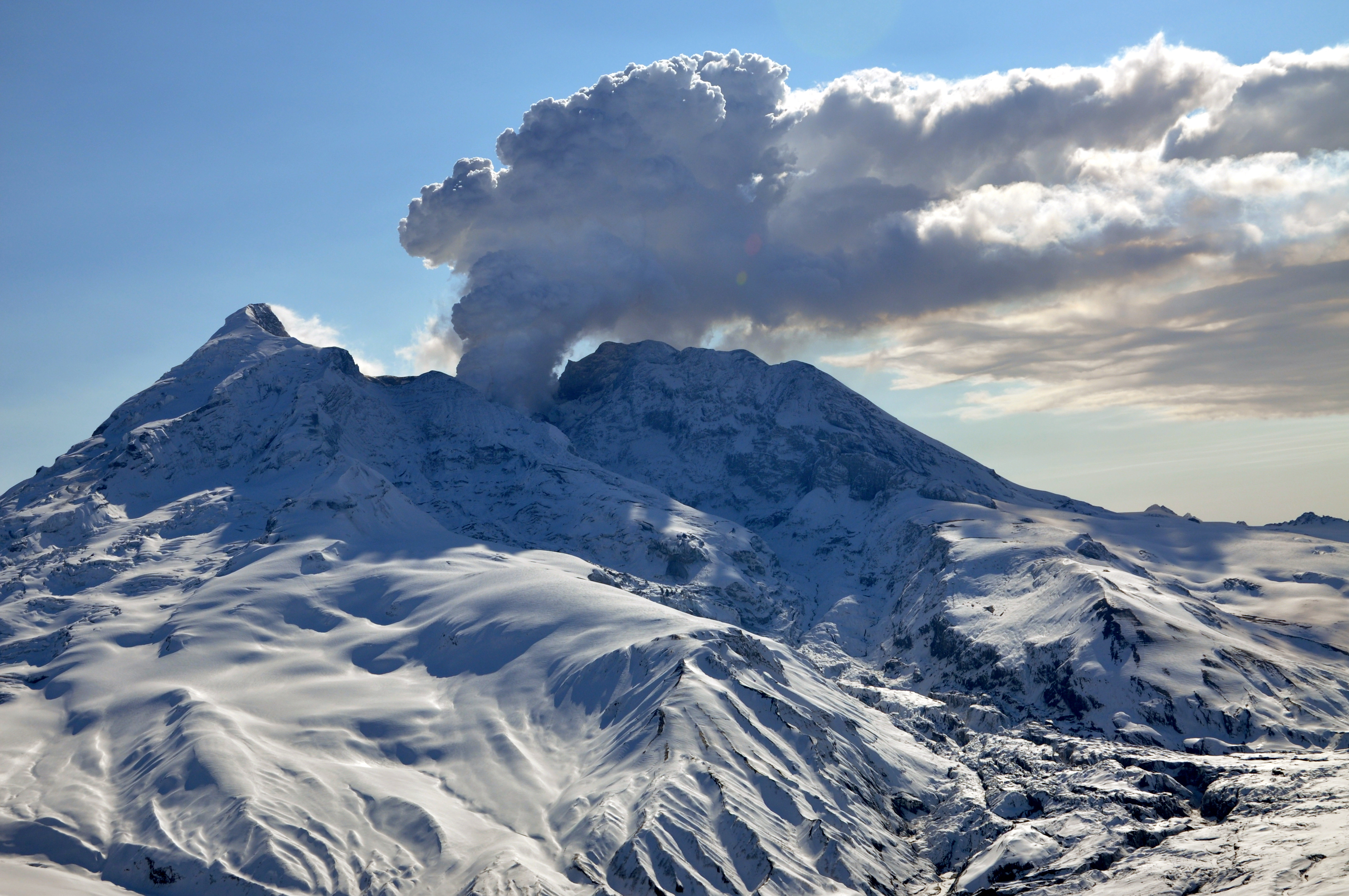 Eruption of Mt Redoubt, Alaska. Original Caption: Redoubt from Voice Repeater site.